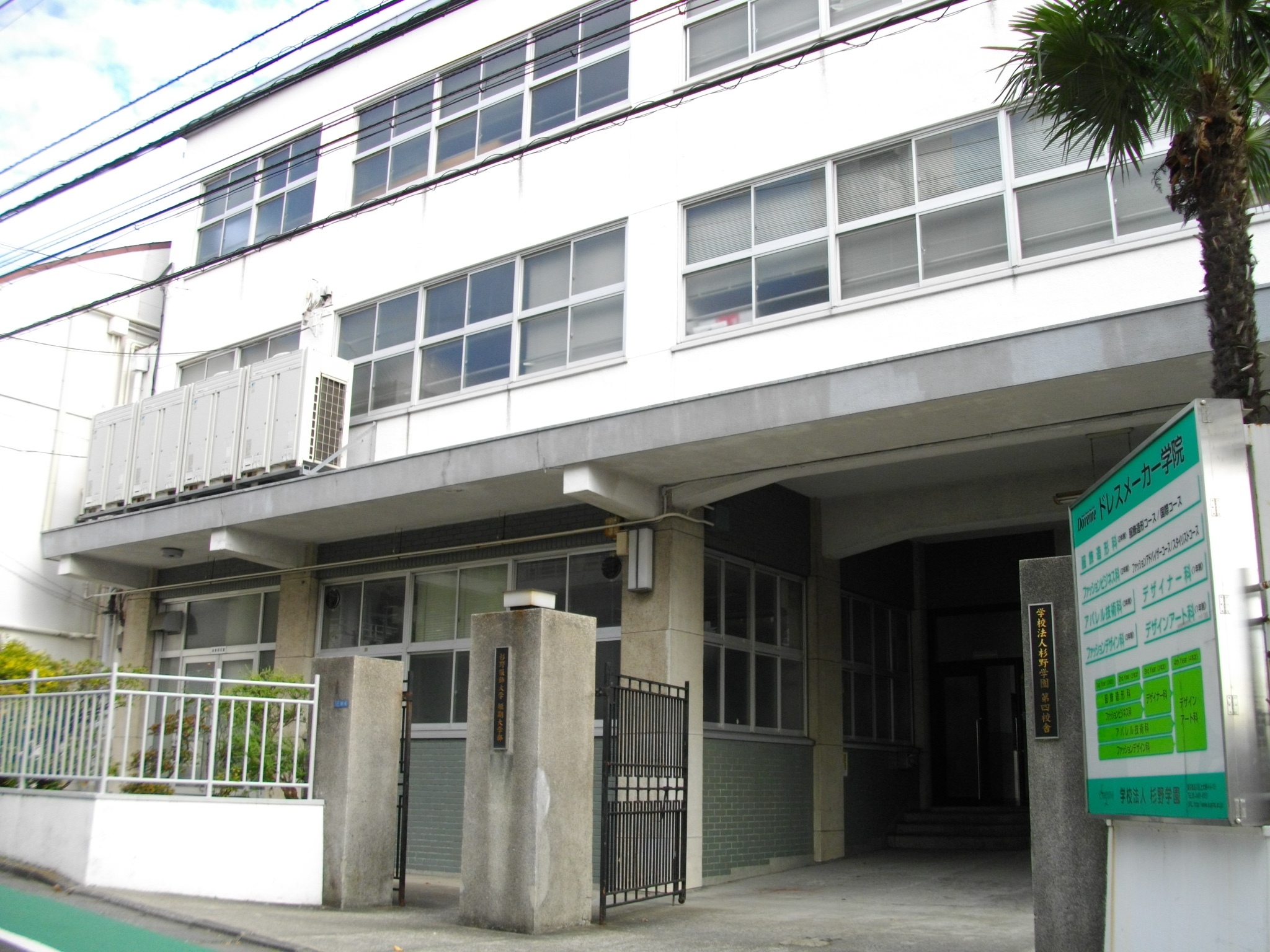 Sugino Fashion Junior College